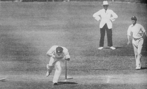 Bert Oldfield is struck in the head by a delivery from English fast bowler Harold Larwood in the 3rd Bodyline Test match in Adelaide, Australia, 1933. Oldfield sustained a fractured skull and concussion in this incident, which almost led to rioting by the Australian crowd however Oldfield admitted that this was his fault as the injury was caused by the ball deflecting off the bat into his head.